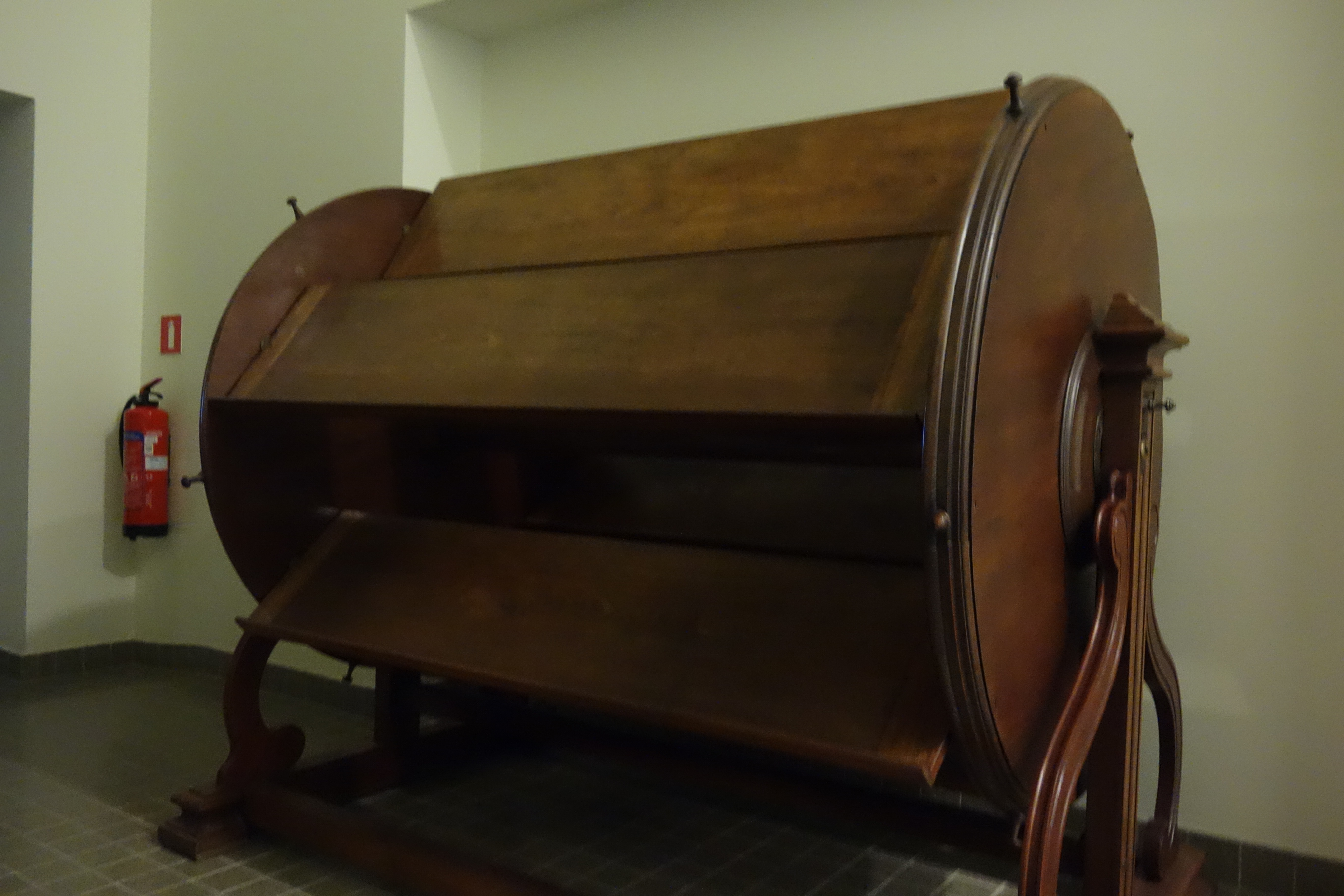 Bookwheel (Ghent University Library), October 2018